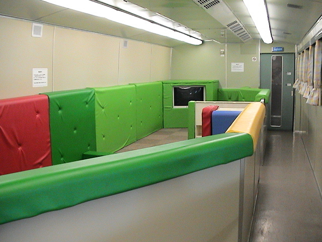 Children's play area on a 0 series "Family Hikari" train, 21 August 2003